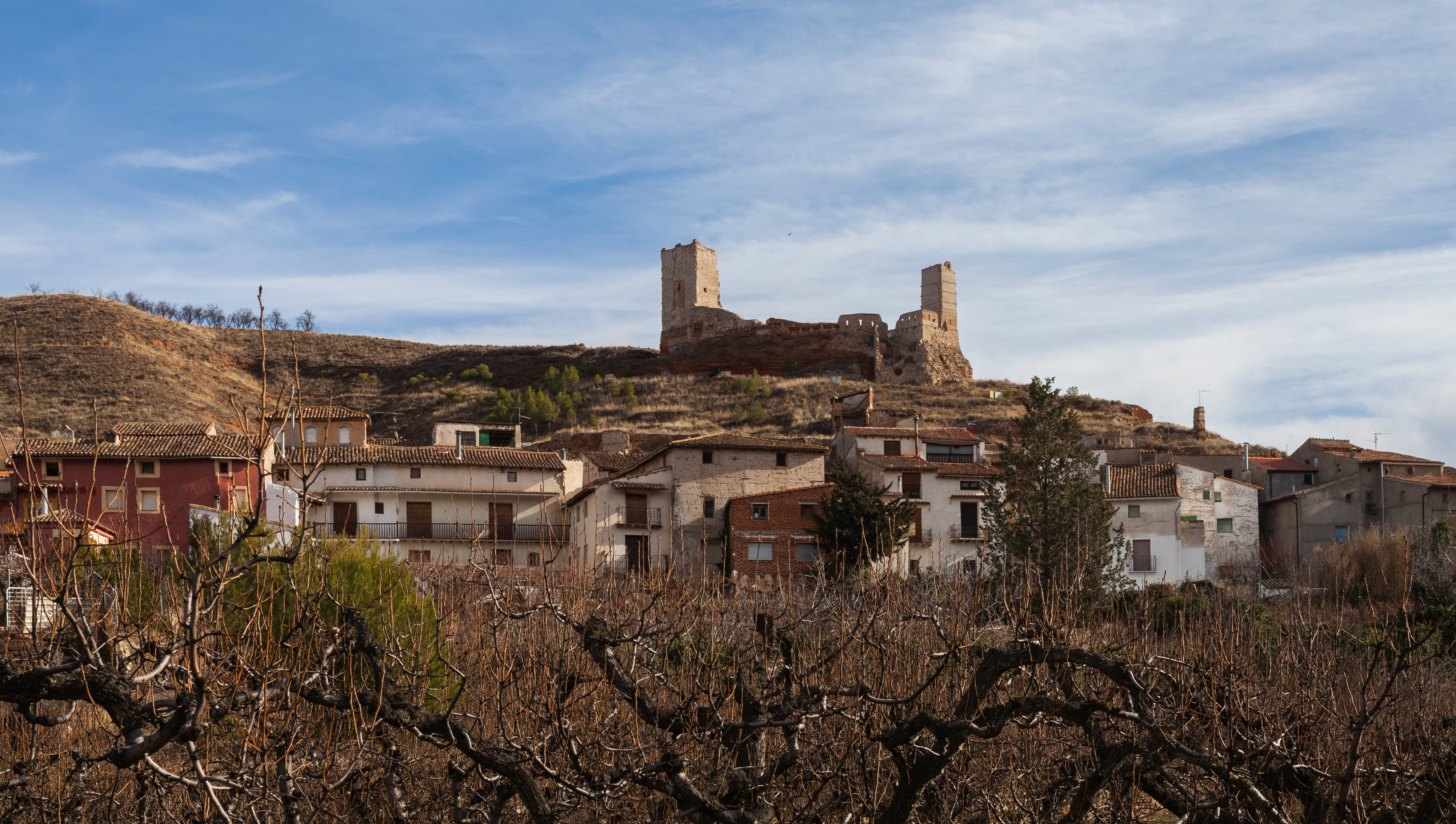 Villafeliche, Zaragoza, Spain